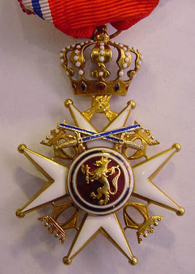 Order of St. Olav. Knight with swords. Norway.